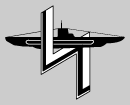 Emblem of 2nd U-boat flotillia of Kriegsmarine